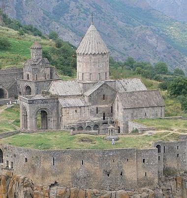 Tatev Monastery. Syunik, Armenia. Photo taken by Eupator.